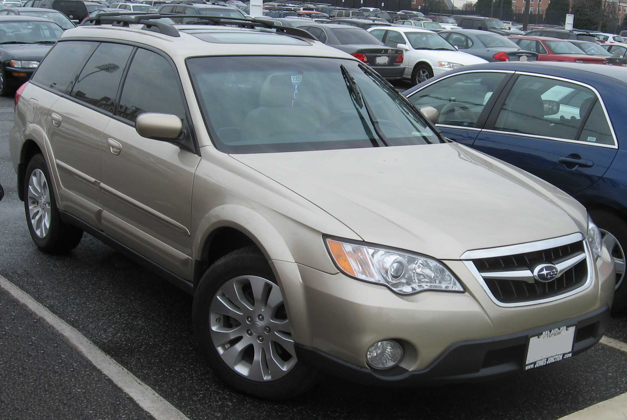 2008 Subaru Outback photographed in College Park, Maryland, USA.